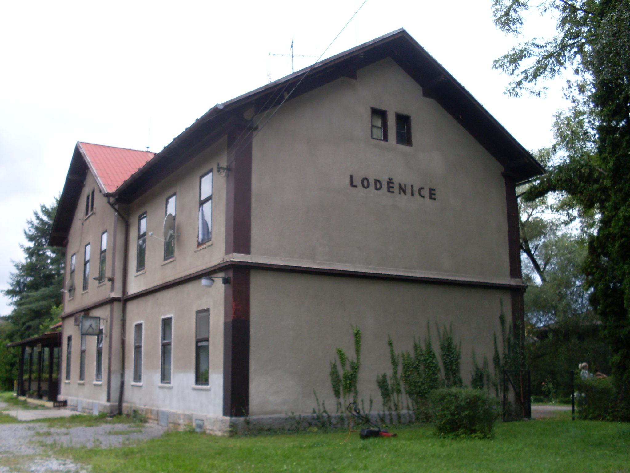 wiew of trainstation